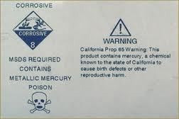 dental mercury MSDS description